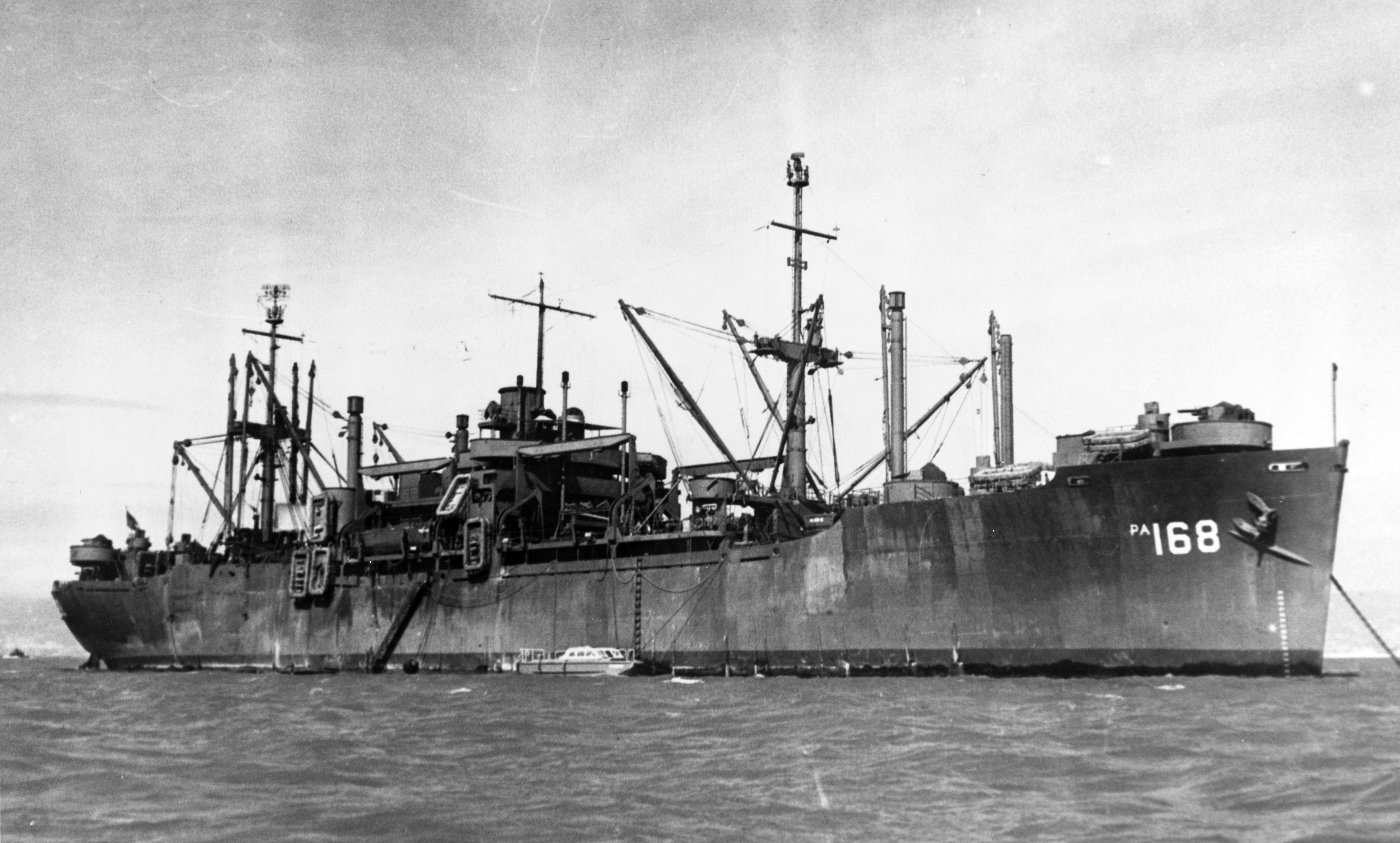 USS Gage (APA-168) at anchor in San Francisco Bay, circa 1945-46